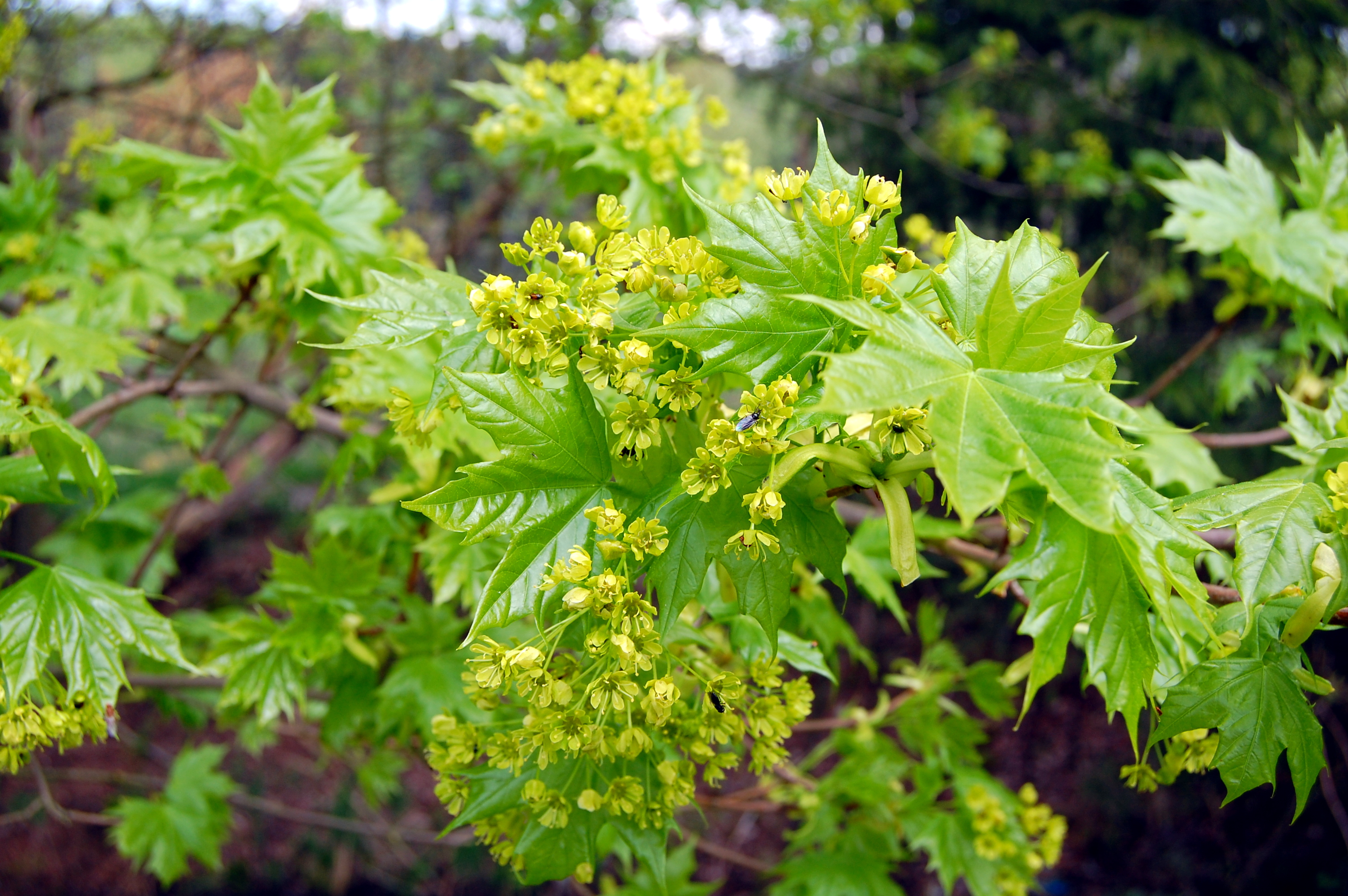 Acer platanoides inflorescens, Ore Mountains